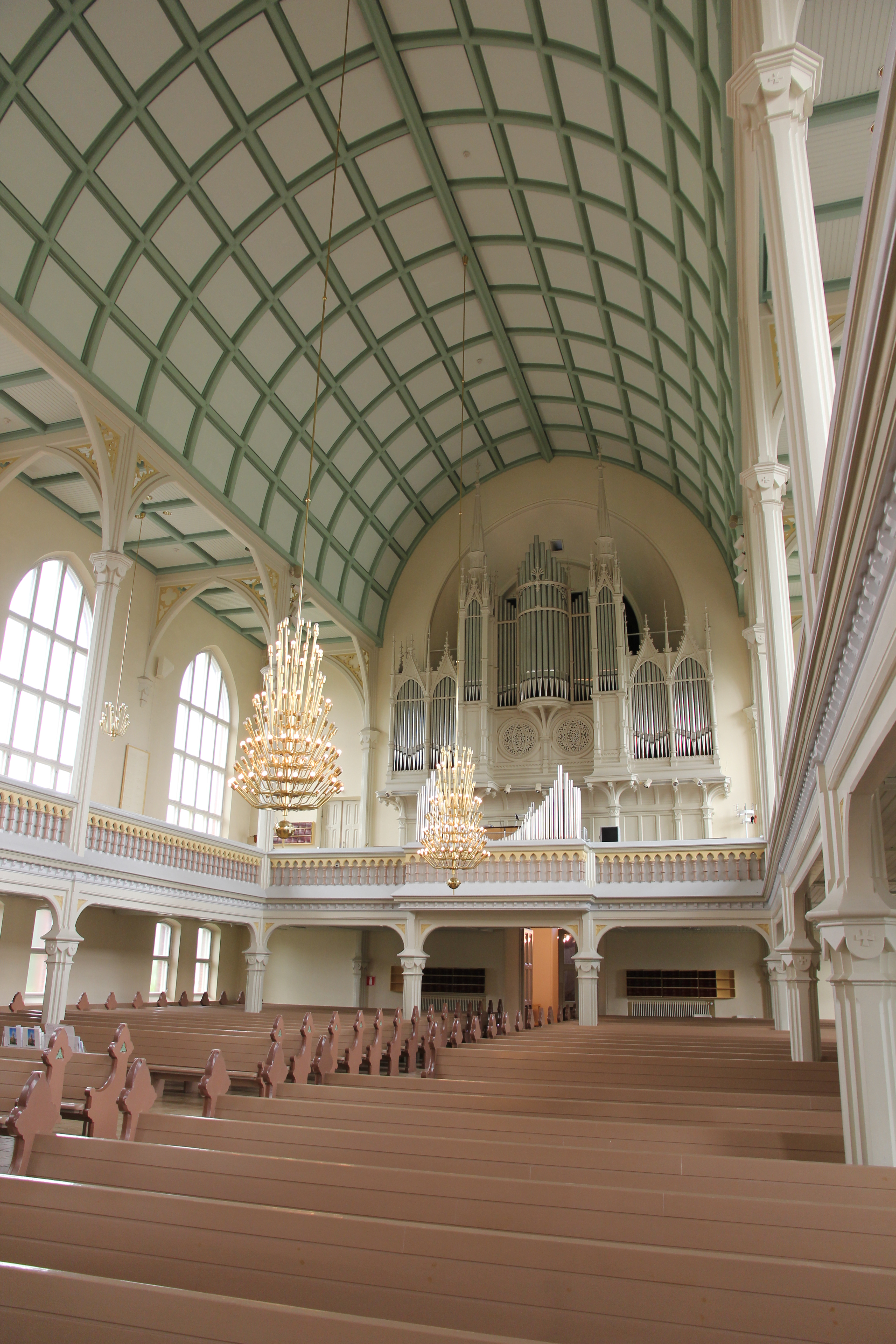 Mikkeli cathedral interior.